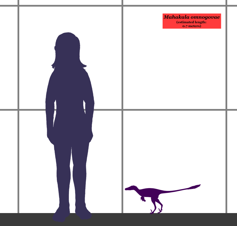 Size comparison between the dromaeosaurid dinosaur Mahakala omnogovae and a human.